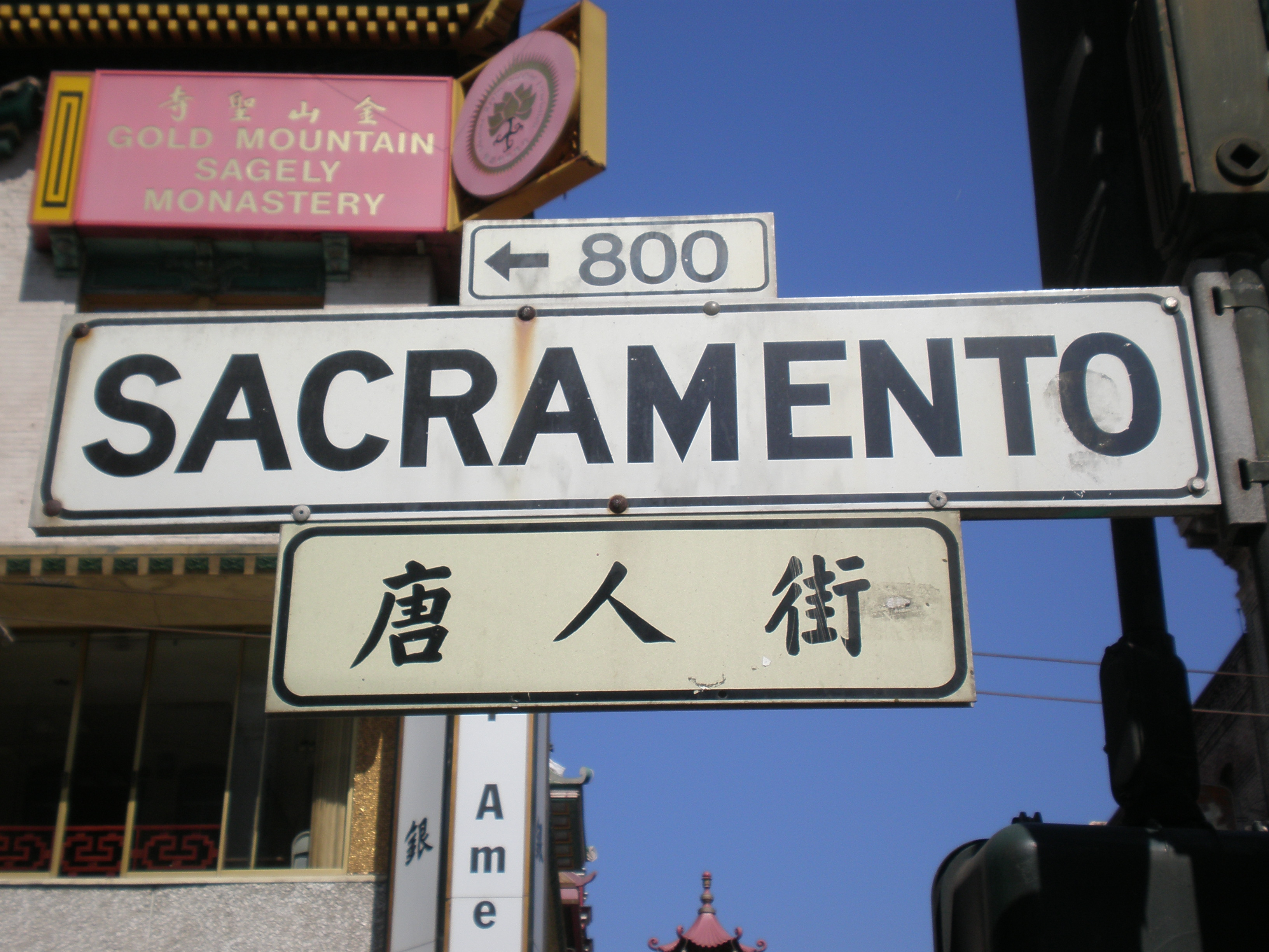 English and Chinese sign for Sacramento Street in Chinatown, San Francisco.